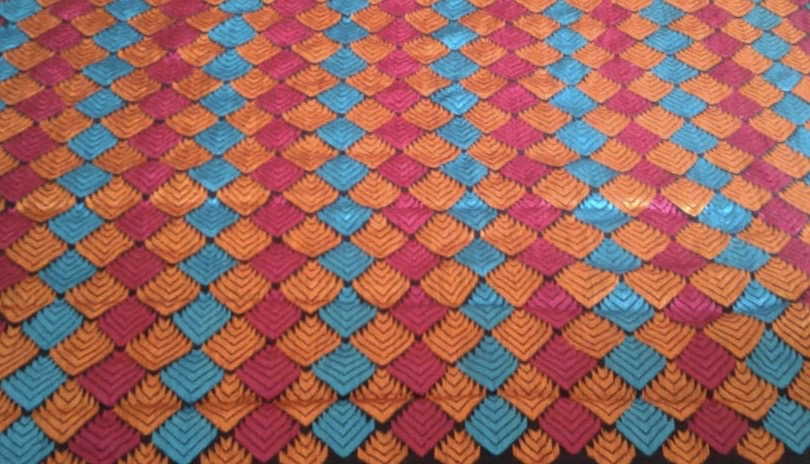 o Improved organizational process for events and streamlined process for updating and maintaining media and newsletter databases